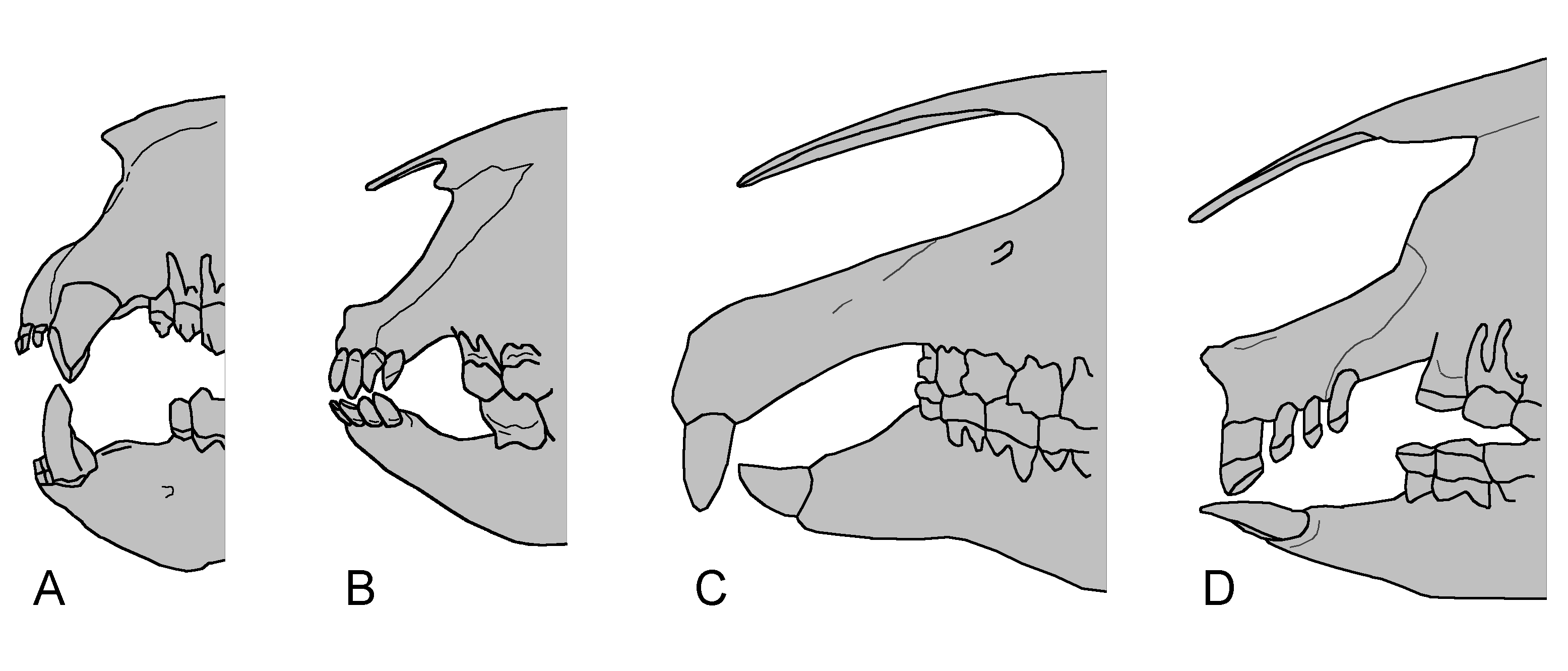 Differences of the three families of Rhinocerotoidea front teeth, A: Metamynodon (Amynodontidae), B: Hyracodon (Hyracodontidae), C: Paraceratherium (Indricotheriidae), D: Trigonias (Rhinocerotidae), redrawn after Leonard B. Radinsky: The families of the Rhinocerotoidea (Mammalia, Perissodactyla). Journal of Mammology 47, 1966, pp. 631-639 and Leonard B. Radinsky: The Early Evolution of the Perissodactyla. Evolution 23 (2), 1969, pp. 308-328 (p. 322), reprinted in Donald R. Prothero: Rhino giants: The palaeobiology of Indricotheres. Indiana University Press, 2013, pp. 1–141 ISBN 978-0-253-00819-0 (p. 59)